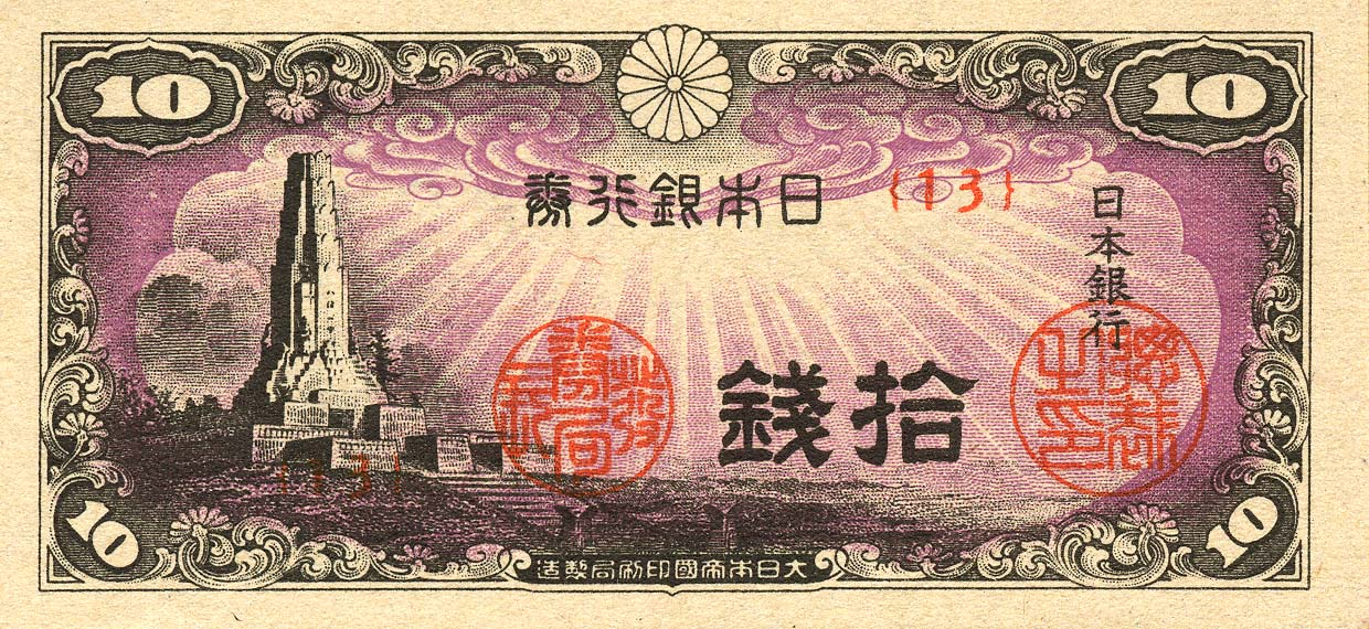 Japanese 10 sen bill Scanned by me